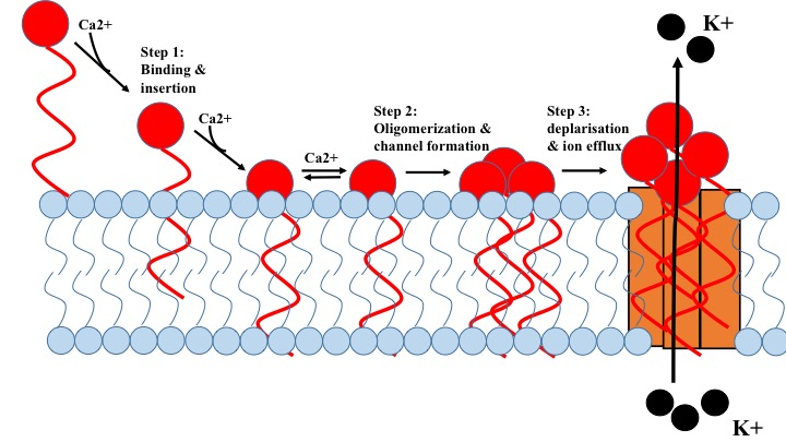 1. Daptomycin binds and inserts into the cell membrane. 2. Aggregates the cell membrane. 3. Alters the shape of the cell membrane to form a hole in the cell, allowing ions in and out of the cell easily.